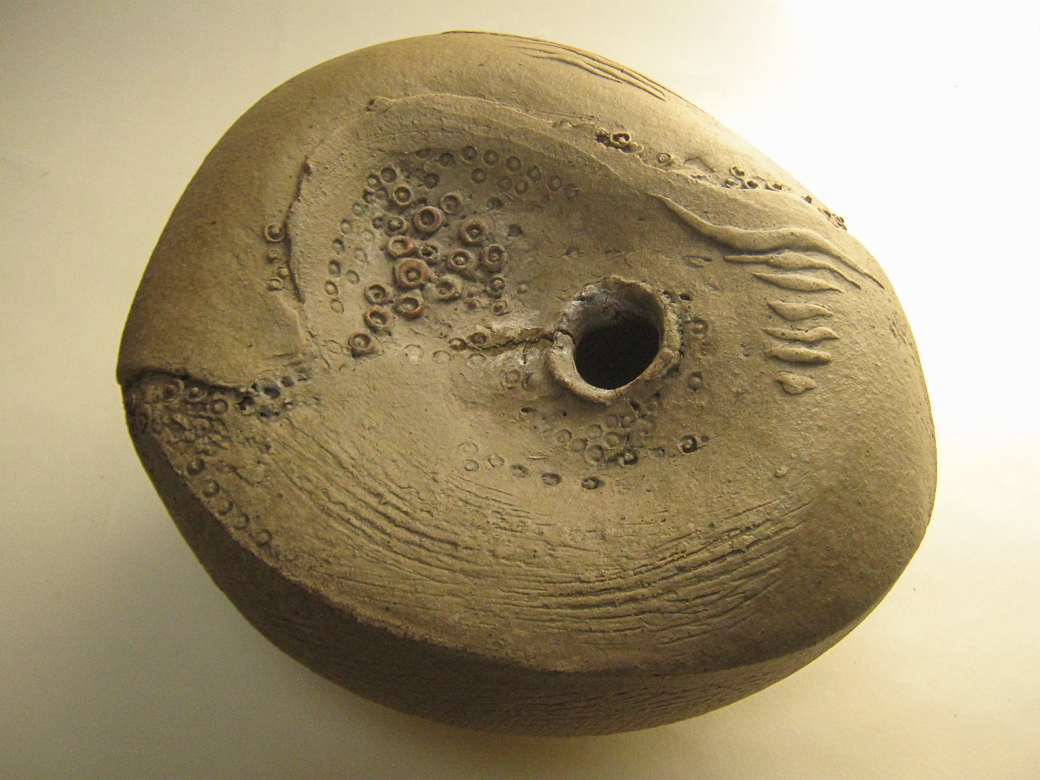 Ovoid pottery form with khaki glaze by Ian Sprague late 1970s; photographed in a private collection at Enfield Victoria